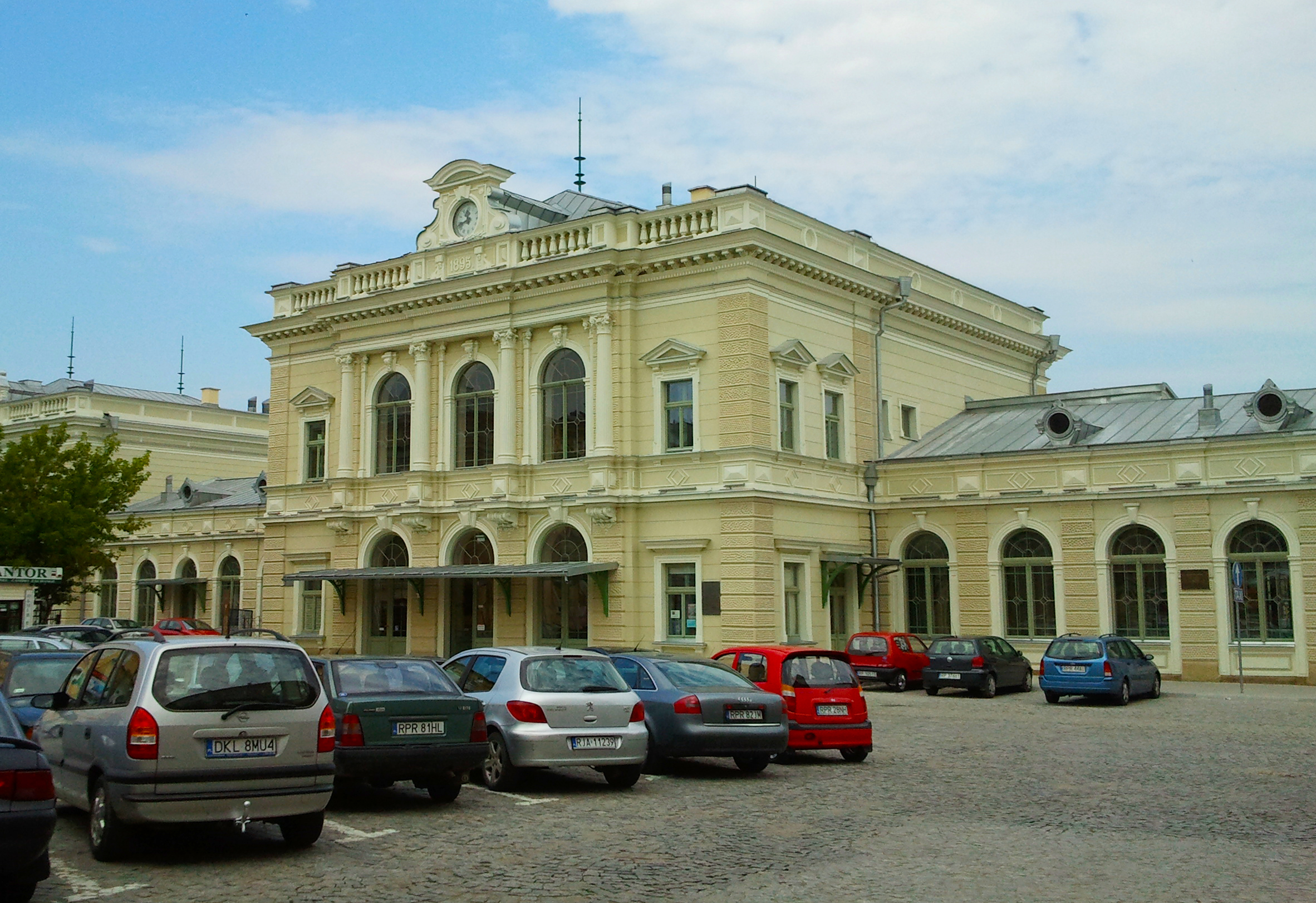 Railway station in Przemyśl (Dworzec Główny).